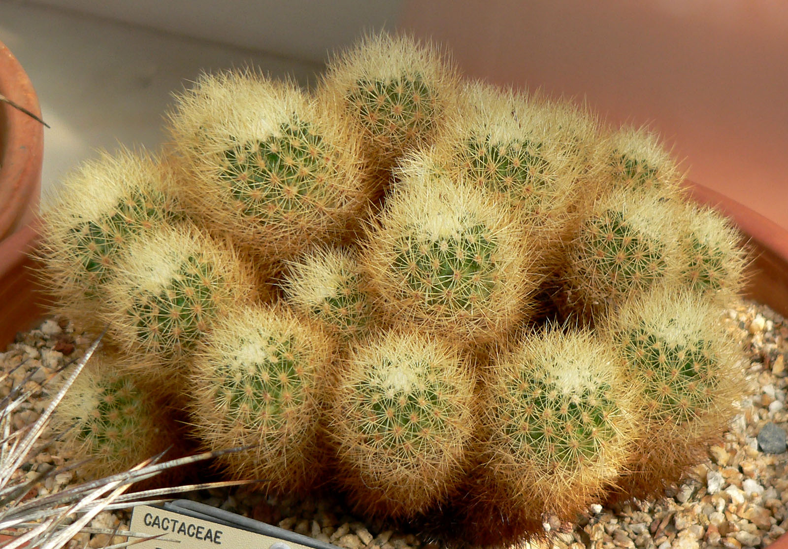 Acharagma roseana at the University of California Botanical Garden, Berkeley, California